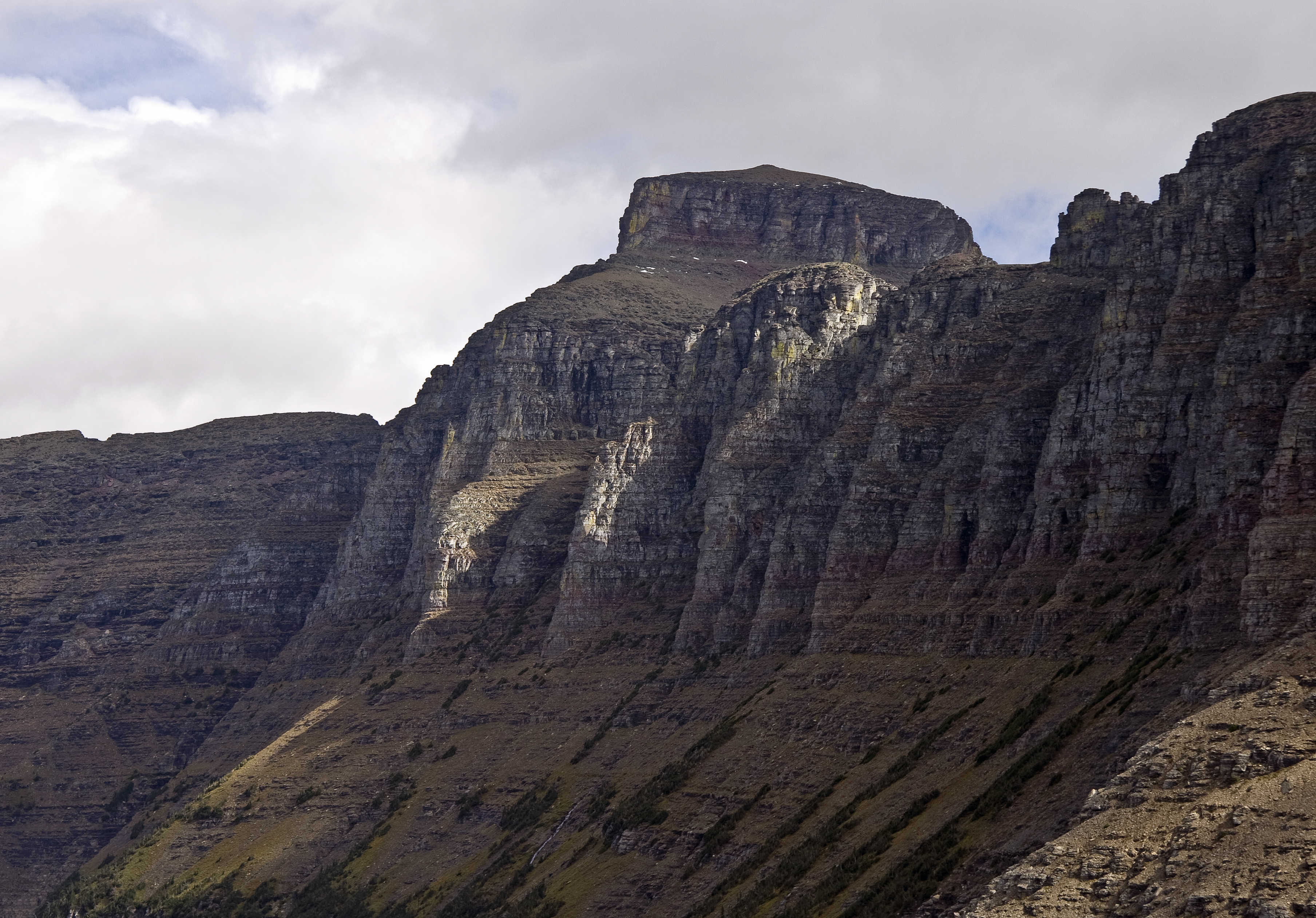 Pollock Mountain above the Garden Wall in Glacier National Park, Montana, USA, from Logan Pass.